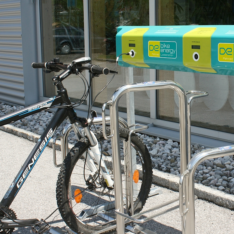 "bike-energy" charging station with bicycle rack "Kappa"